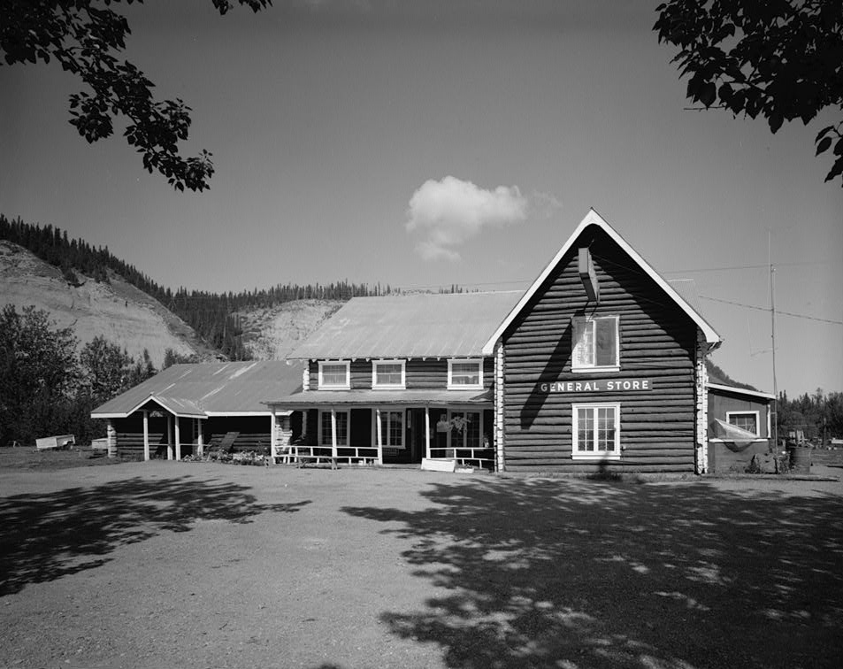 Front of the Gakona Roadhouse in Gakona, a community in the Valdez-Cordova Census Area of the U.S. state of Alaska. Built in 1905 and located along the Glenn Highway, the general store is listed on the National Register of Historic Places. As well, it is a part of the Gakona Historic District, which is also listed on the Register.